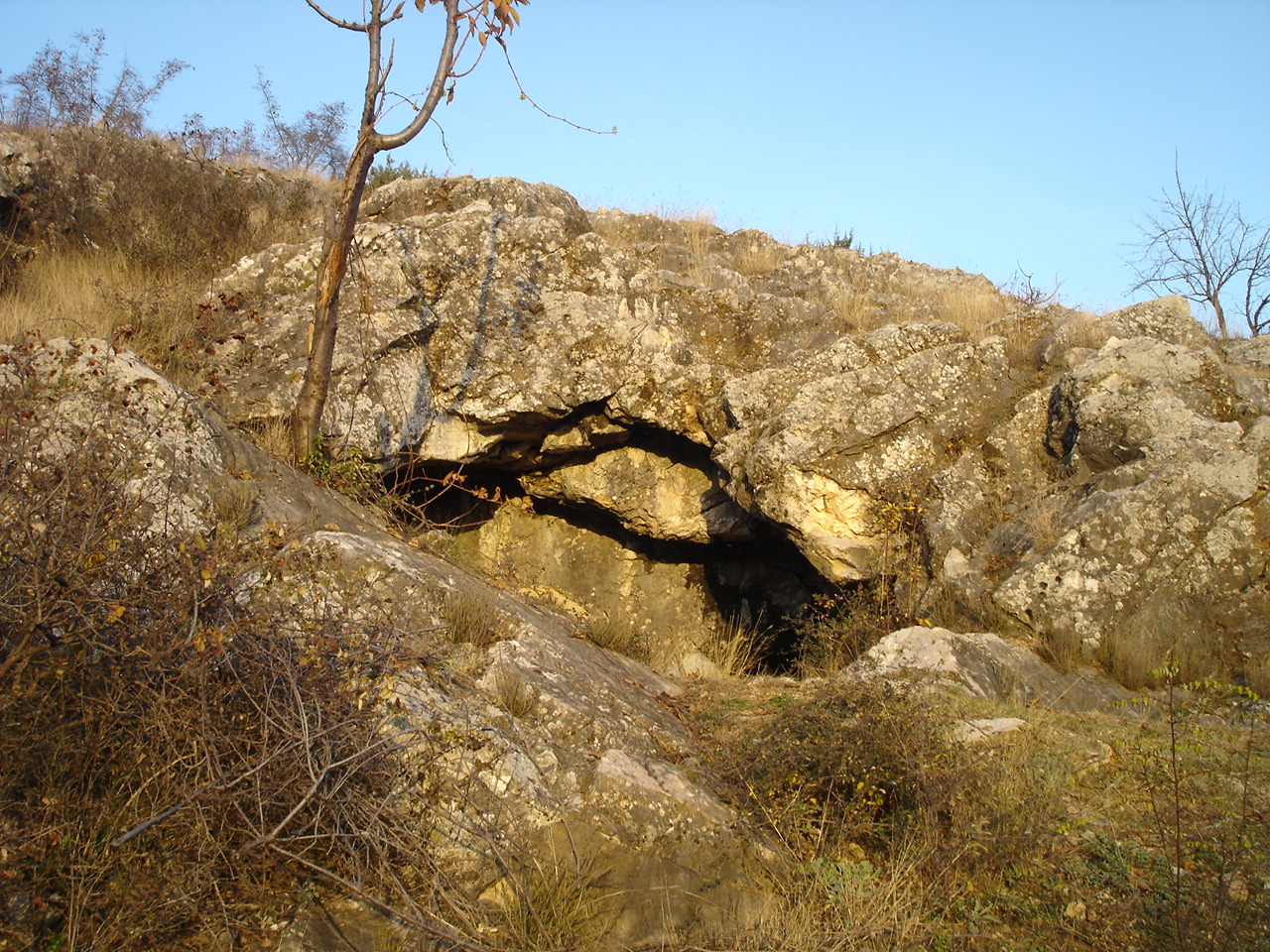 Dona Duka cave near Rashce, Macedonia